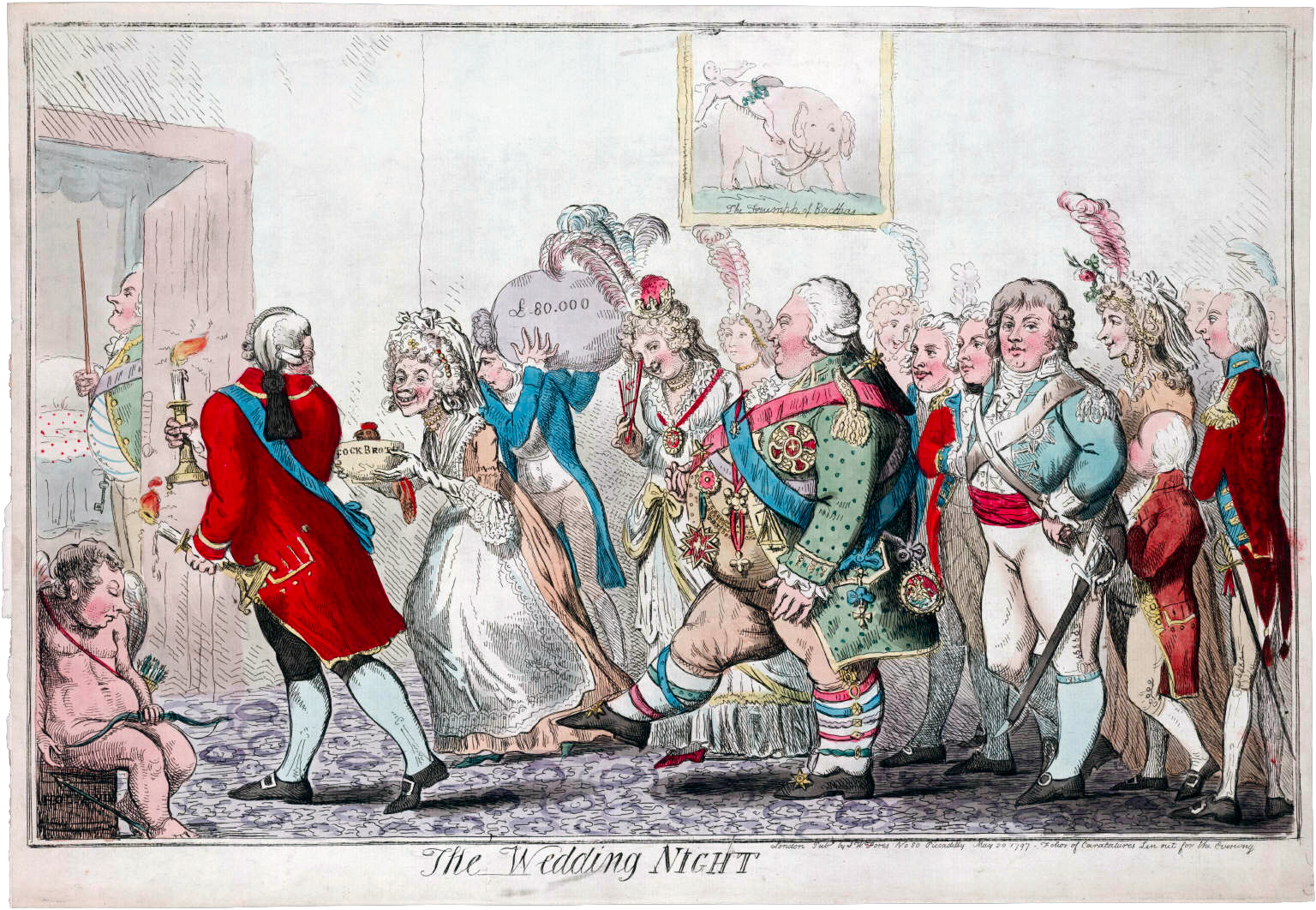 Print on laid paper : etching, hand-colored ; sheet 32.3 x 46.5 cm.